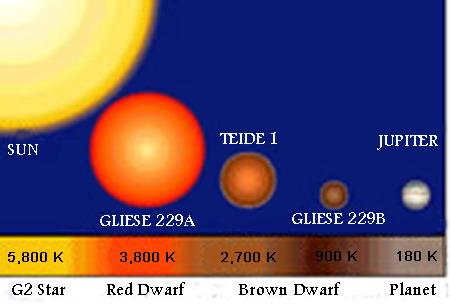 Copied from Image:RelativeStarSizes.jpg: "..."